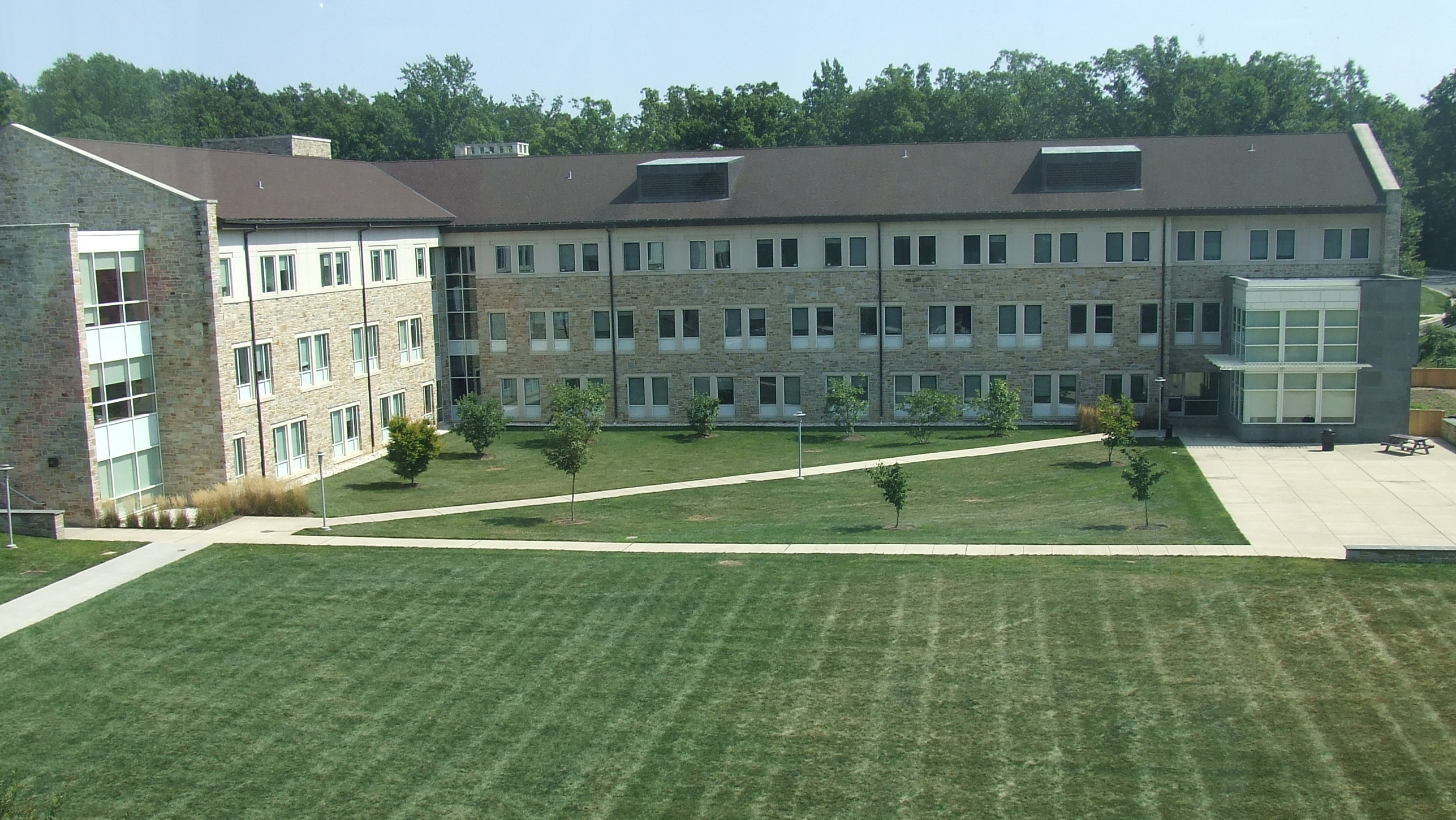 A cropped photo of "the T" residence hall on Goucher College's campus